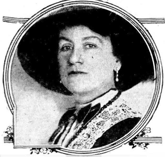 Portrait photograph of the Australian trapeze artist and actress Kate Rickards (1862– 1922). She was the second wife of Harry Rickards. The image was published in her obituary in 1922 but probably dates from about 1918..